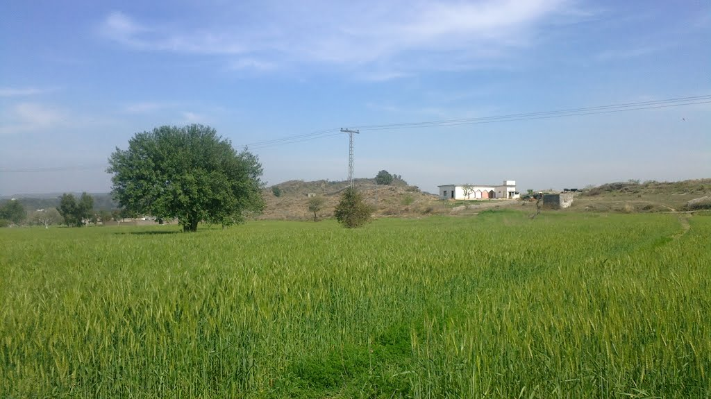 Village Picture